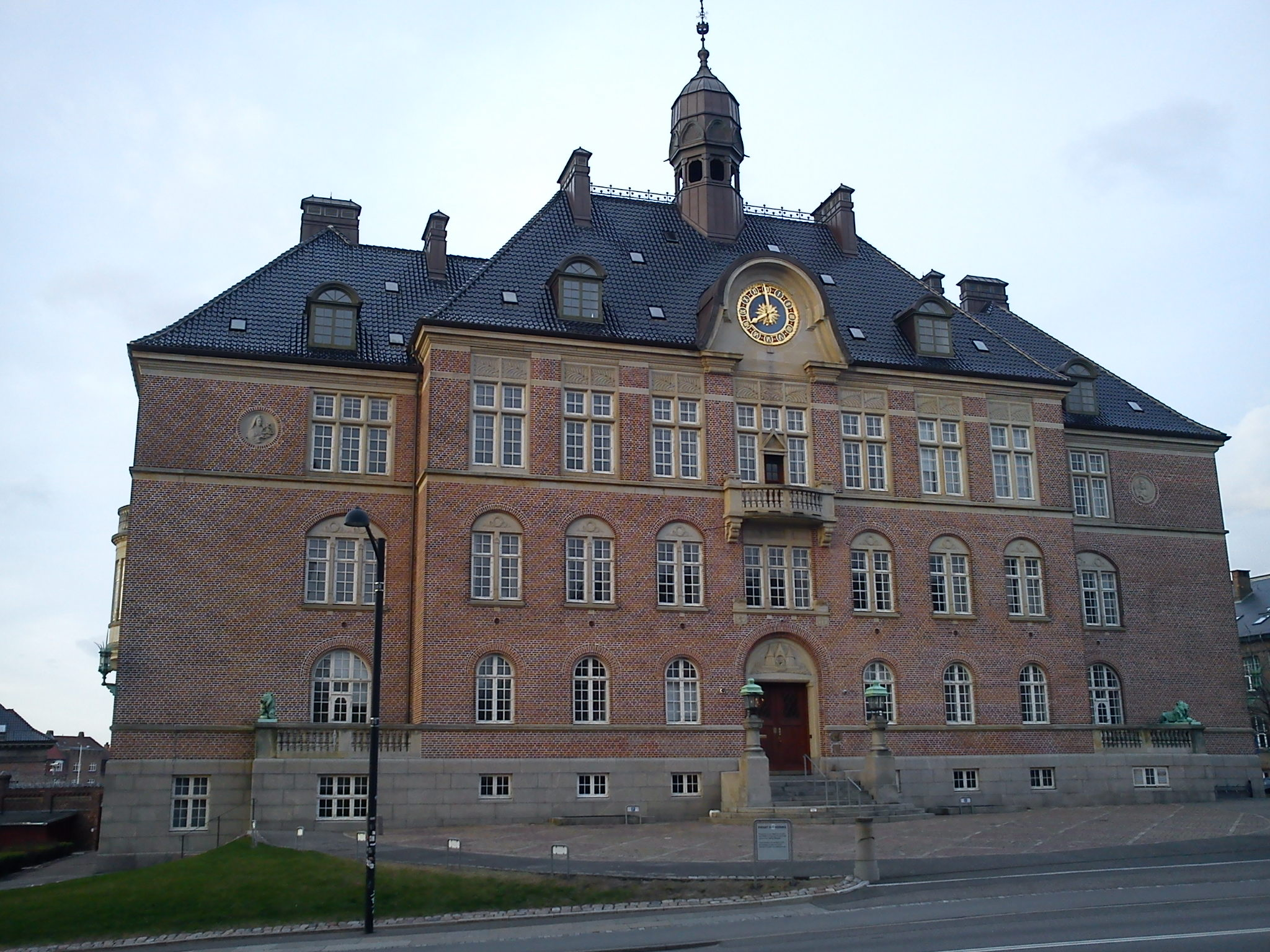 Tinghuset, a courthouse for The Court of Aarhus.